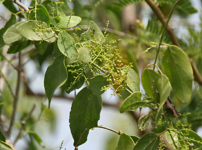 Peelu, Meswak toothpaste plant, Saltbush, Chhota Peelu, Jhak, Kharjal, Jal, Dhalu, Sara or Piludi Salvadora persica in Krishna Wildlife Sanctuary, Andhra Pradesh, India.